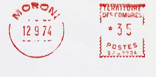 Meter stamp catalog image, Comoros A1